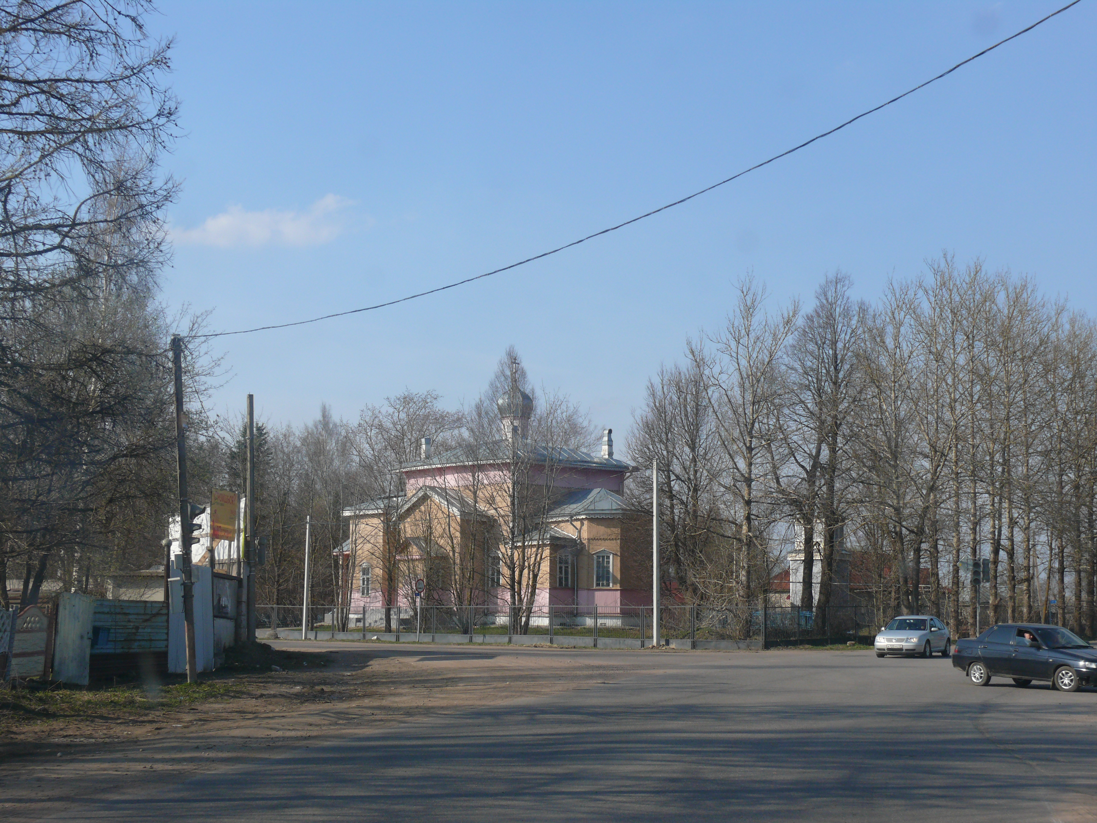 Alexander Nevsky churche in Volosovo, Leningrad oblast, Russia